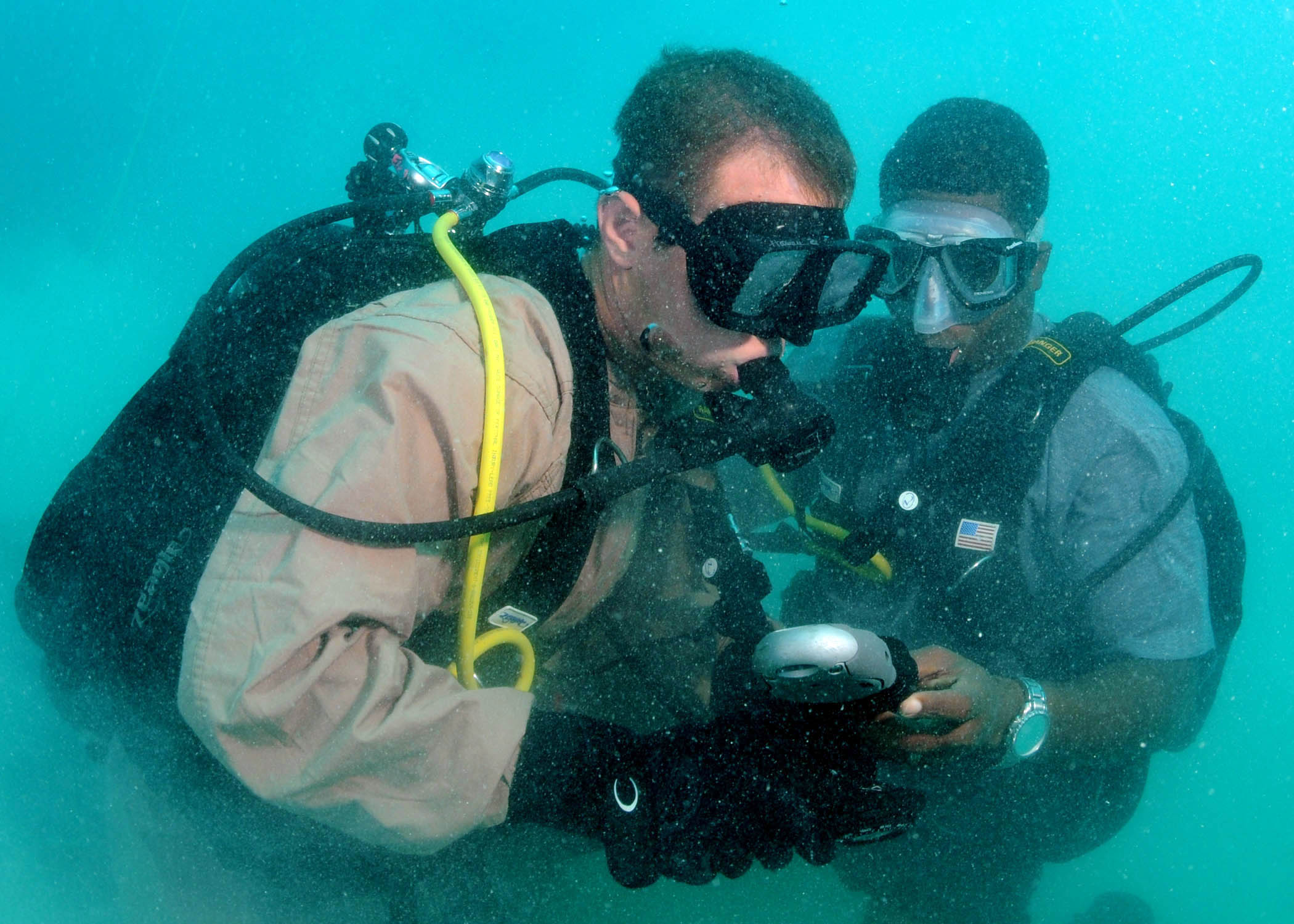 ST JOHN'S, Antigua (July 10, 2008) Construction Mechanic 2nd Class Aaron Heldreth checks bottle pressures with his buddy diver, Constable Gaveline Brouet, a Region Security Service diver from St. Lucia, during Navy Diver-Global Fleet Station 2008. The mission of Global Fleet Station is to maintain strong multi-lateral partnerships support the U.S. maritime strategic goals of enhancing regional stability and security by promoting multinational working relationships. U.S. Navy photo by Mass Communication Specialist 2nd Class Kori L. Melvin (Released)